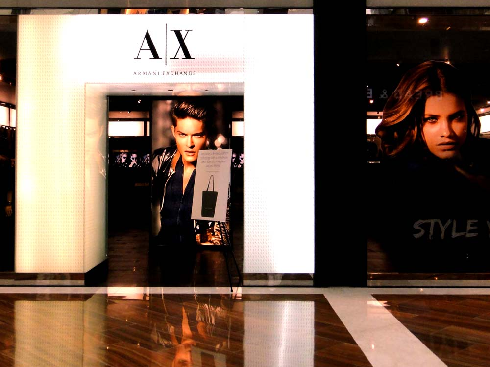 X Armani Exchange, Marina Bay Sands, Singapore